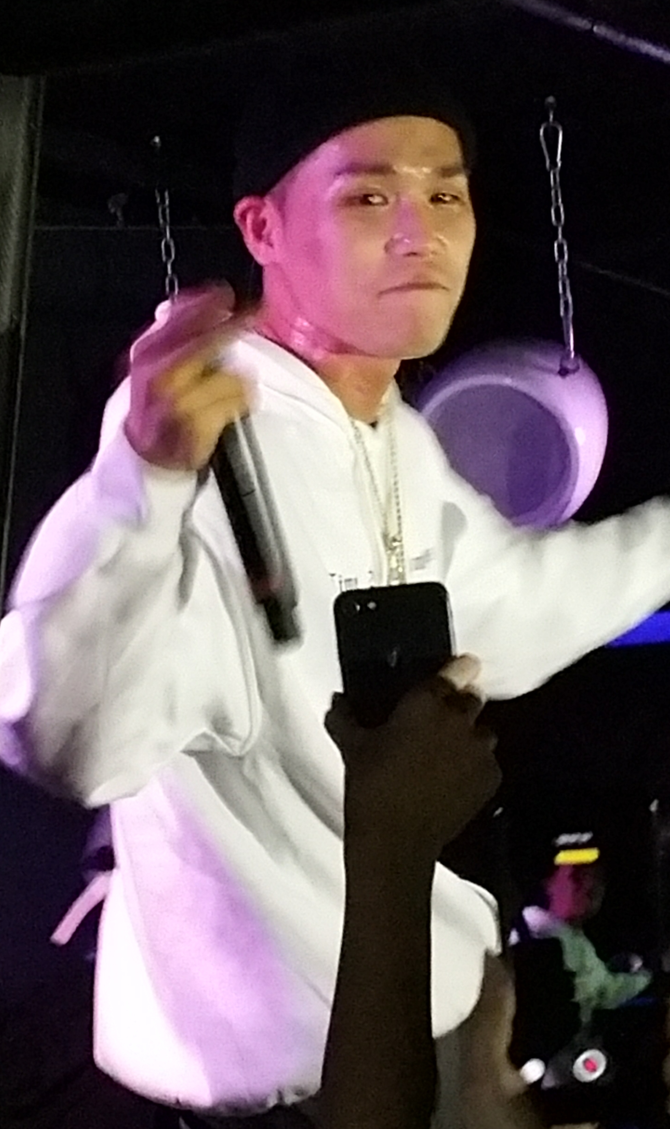 Sik-K performing at "Sik-K presents TRAPART-Y", Soap Seoul nightclub, 132-3 B1, Itaewon-dong, Yongsan-gu, Seoul.